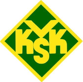 Logo of the Verband der Kleingärtner, Siedler und Kleintierzüchter